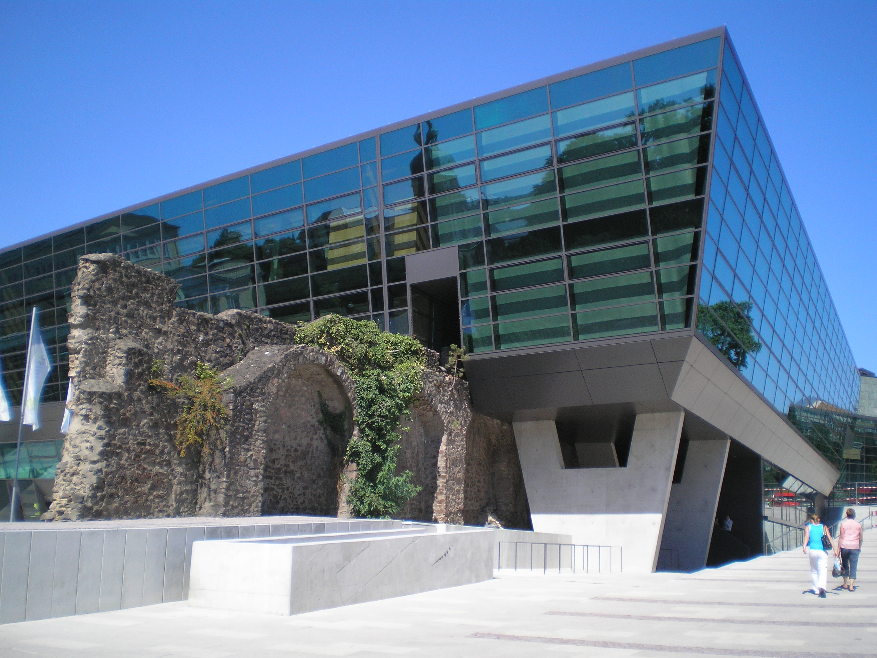 Darmstadtium (science & congress center)